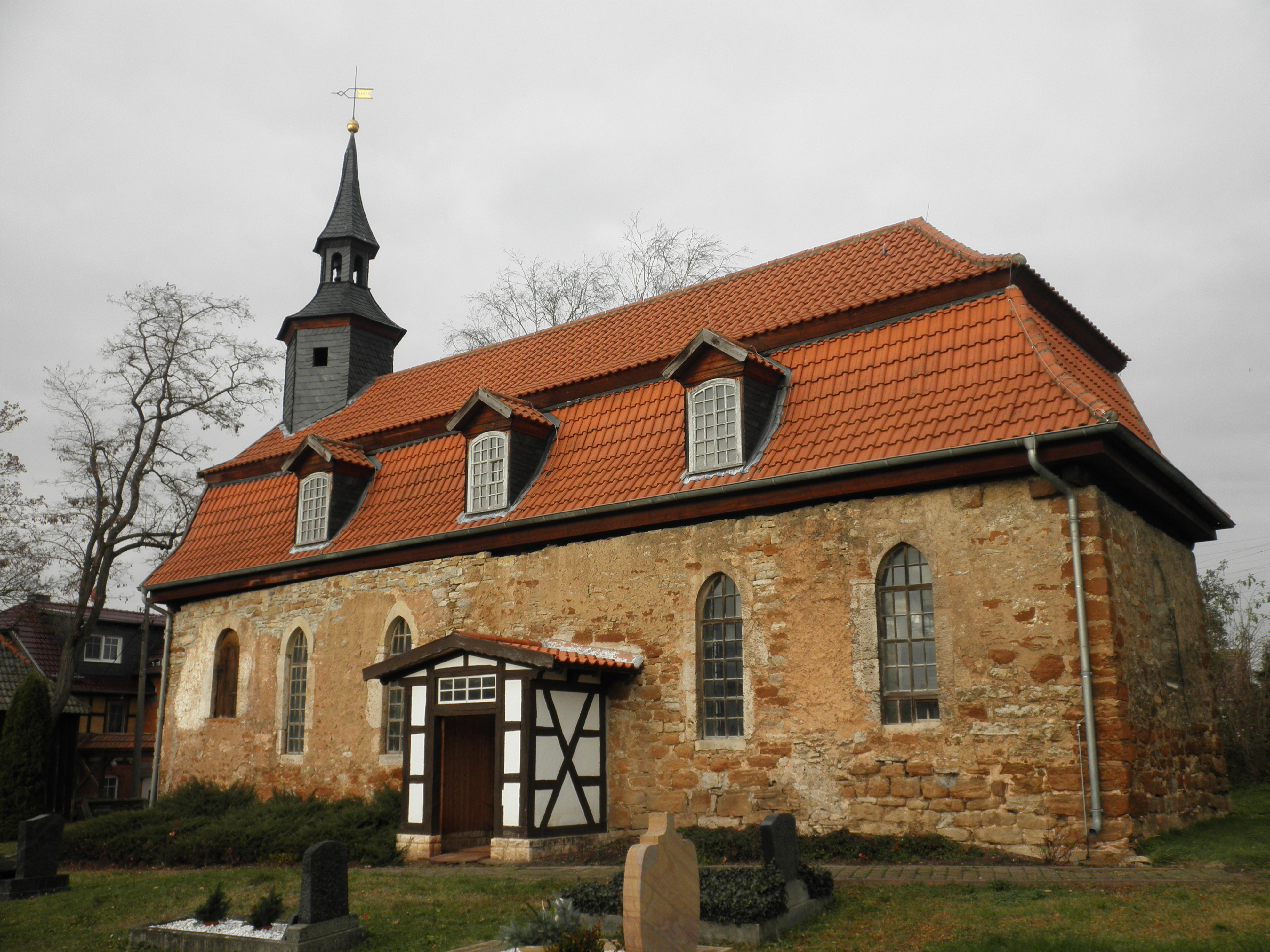 Church in Wolferschwenda in Thuringia